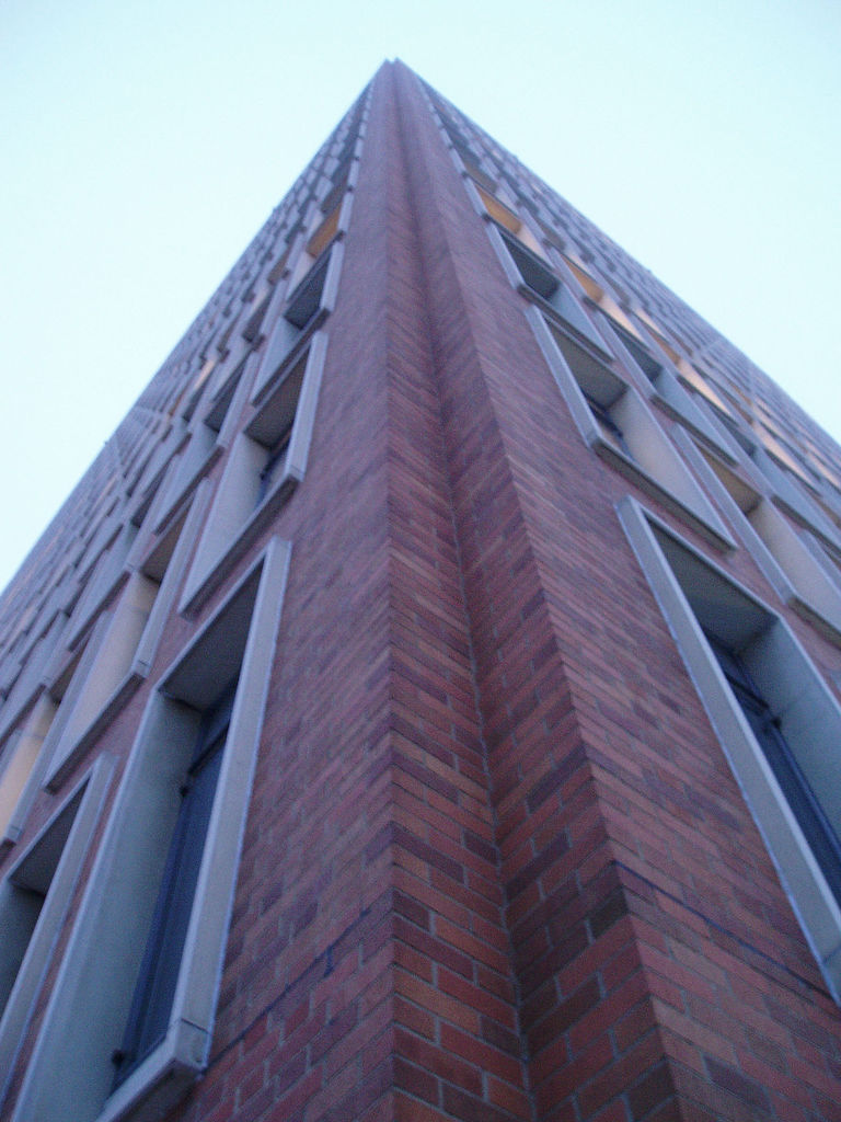 Social Sciences, University of Minnesota (Heller Hall is the same design)